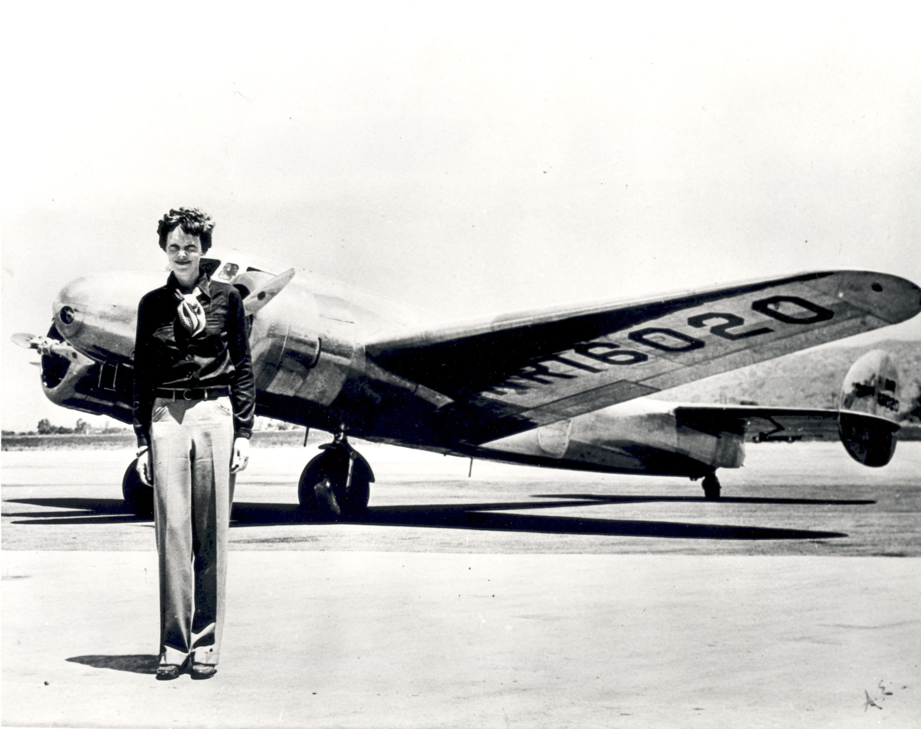 Amelia Earhart standing in front of the Lockheed Electra in which she disappeared in July 1937. Born in Atchison, Kansas in 1897, Amelia Earhart did not begin flying until after her move to California in 1920. After taking lessons from aviation pioneer Neta Snook in a Curtiss Jenny, Earhart set out to break flying records, breaking the women altitude records in 1922. Earhart continually promoted women in aviation and in 1928 was invited to be the first women to fly across the Atlantic. Accompanying pilots Wilmer Stultz and Louis Gordon as a passenger on the Fokker Friendship, Earhart became an international celebrity after the completion of the flight. In May 1932 Earhart became the first woman to fly solo across in the Atlantic. In 1935 she completed the first solo flight from Hawaii to California. In the meantime Earhart continued to promote aviation and helped found the group, the Ninety-Nines, an organization dedicated to female aviators. On June 1, 1937, Earhart and navigator, Fred Noonan, left Miami, Florida on an around the world flight. Earhart, Noonan and their Lockheed Electra disappeared after a stop in Lae, New Guinea on June 29, 1937. Earhart had only 7,000 miles of her trip remaining when she disappeared. While a great deal of mystery surrounds the disappearance of Amelia Earhart, her contributions to aviation and womens issues have inspired people over 80 years.